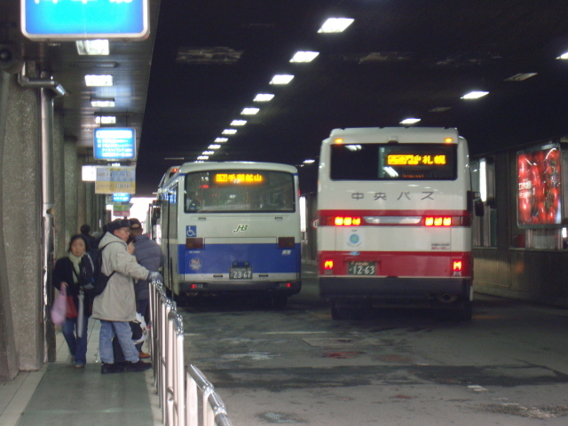 Sapporo Station Bus Terminal